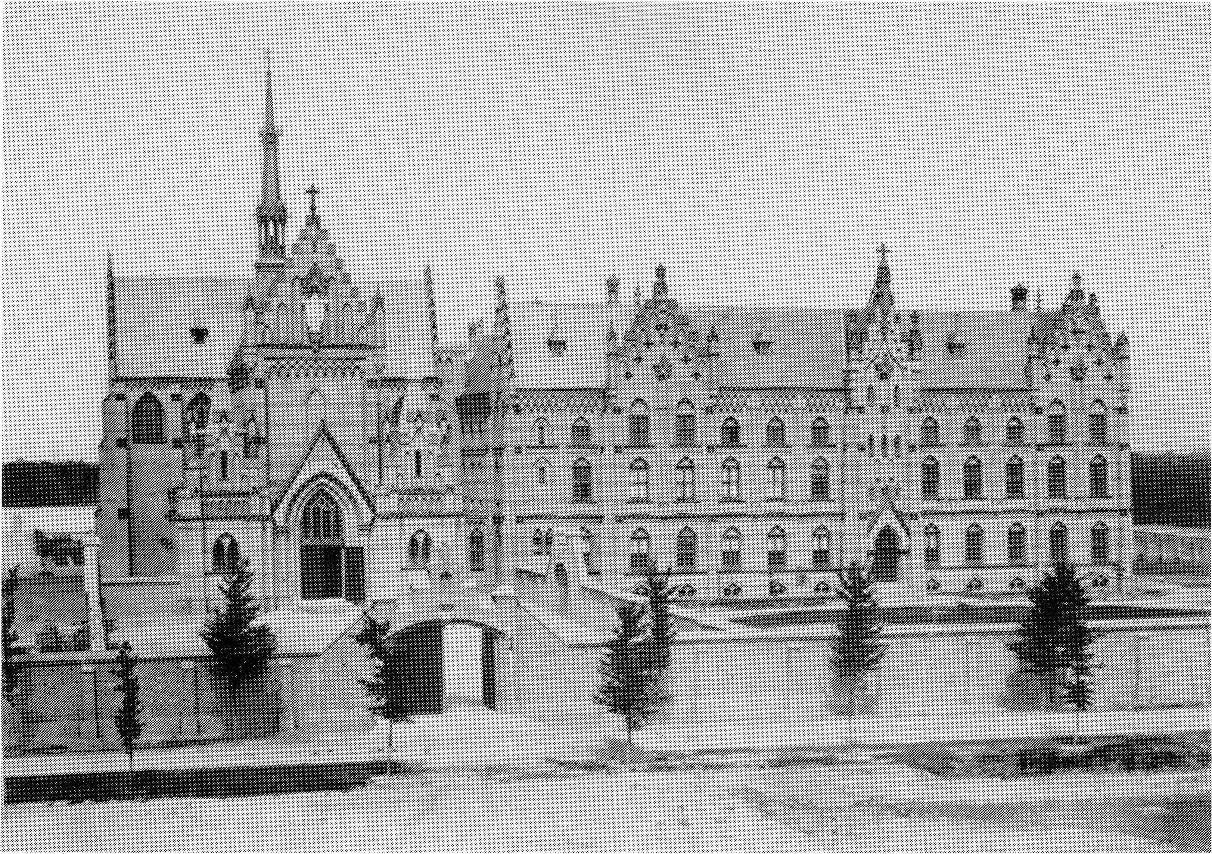 Franciscan monastery Alverna, Wijchen, front.